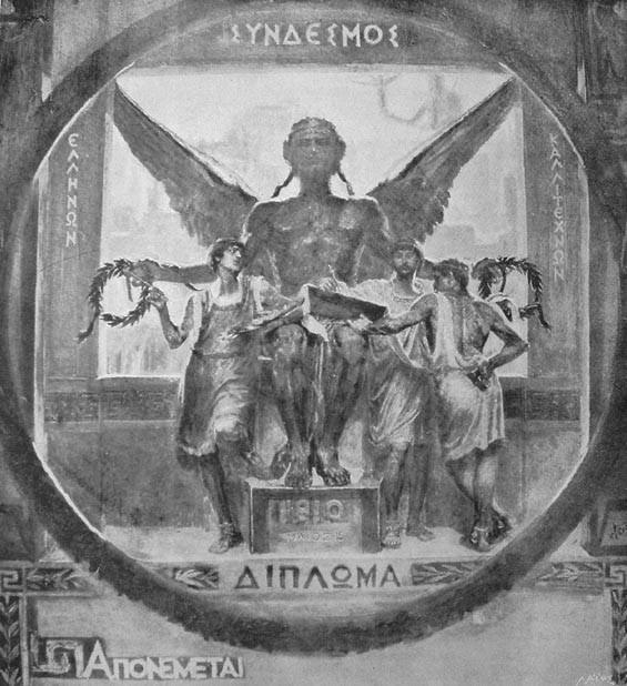 Petros Roumbos, The Sundesmos Ellinon Kallitexnon (League of Greek Artists) diploma (sketch)